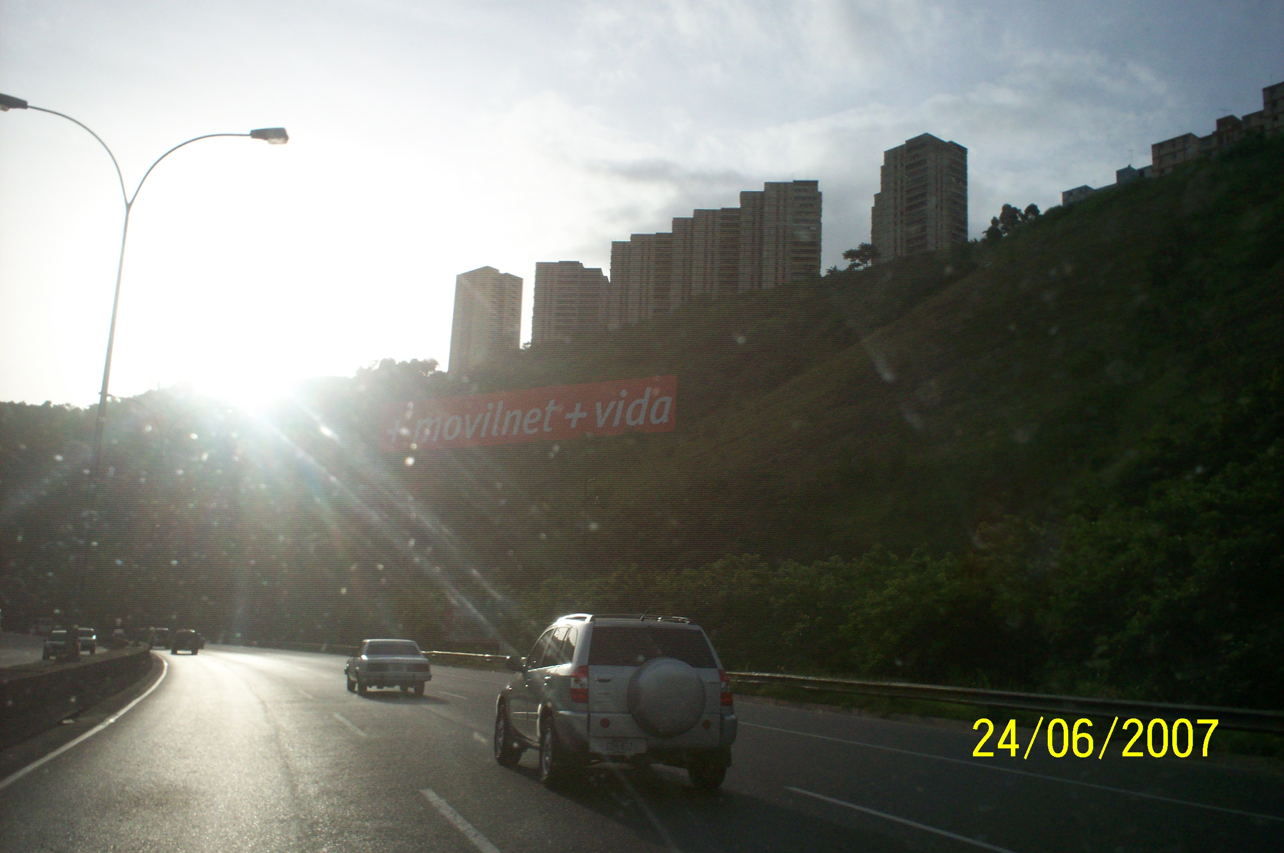 Petare - Guarenas interstate, section Caucaguita.